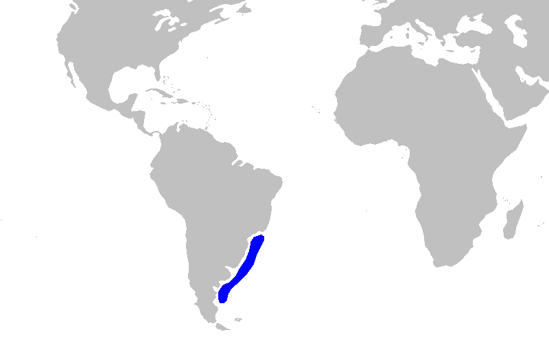 Distribution map for Squatina argentina